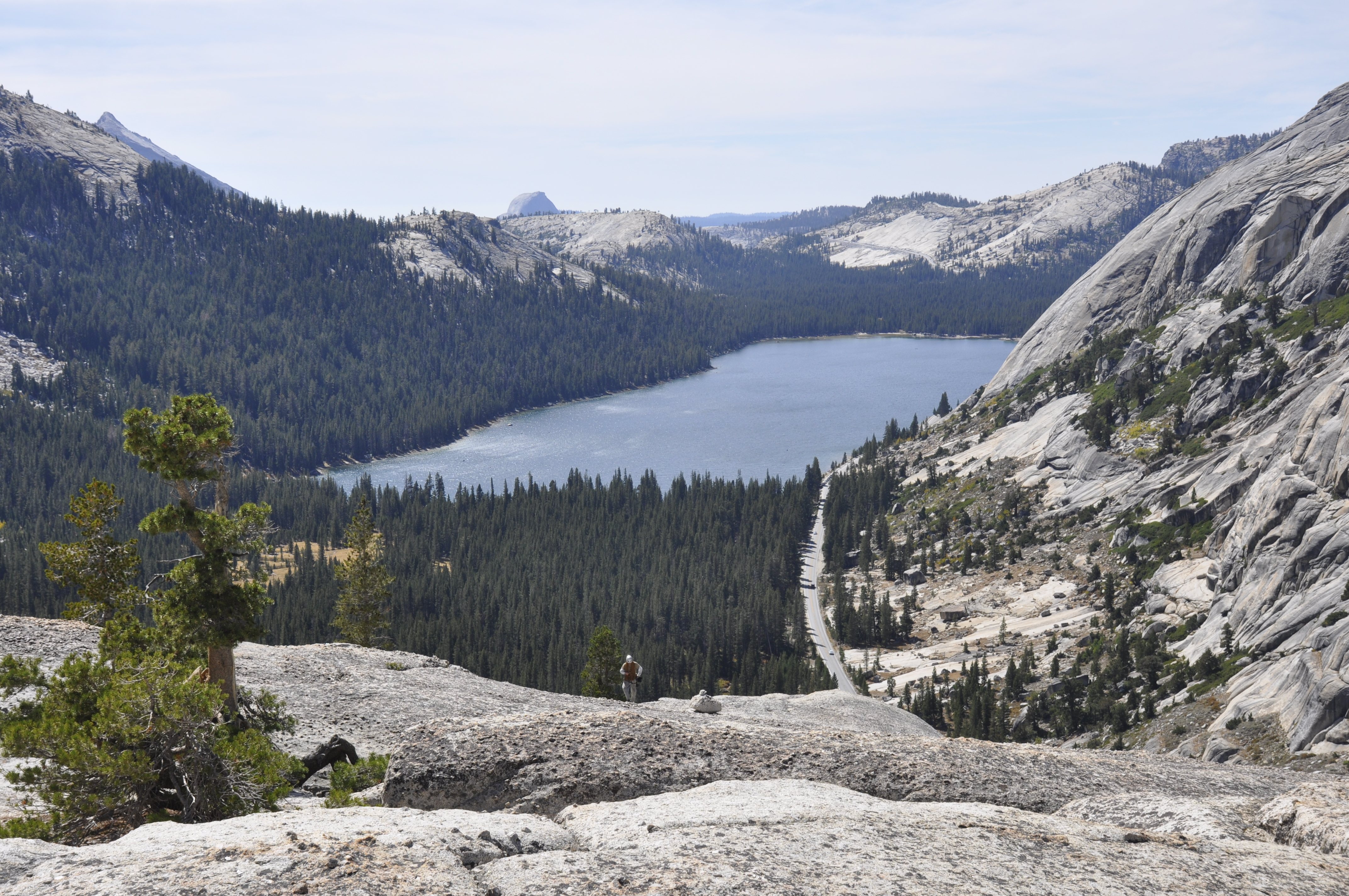 Tuolumne Meadows section of Yosemite National Park. Pywiack Dome summit looking SW